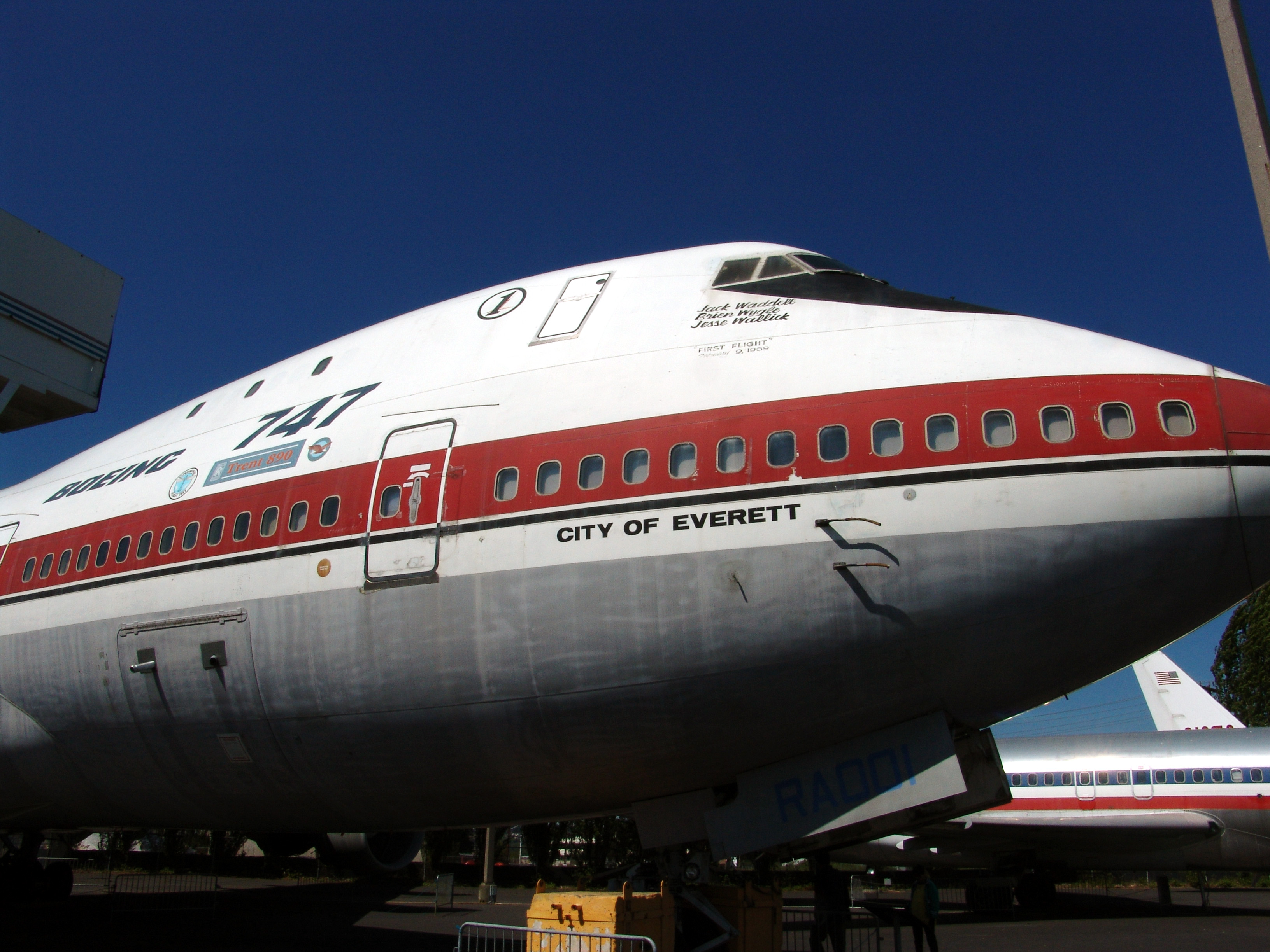 The City of Everett at the Museum of Flight in Seattle